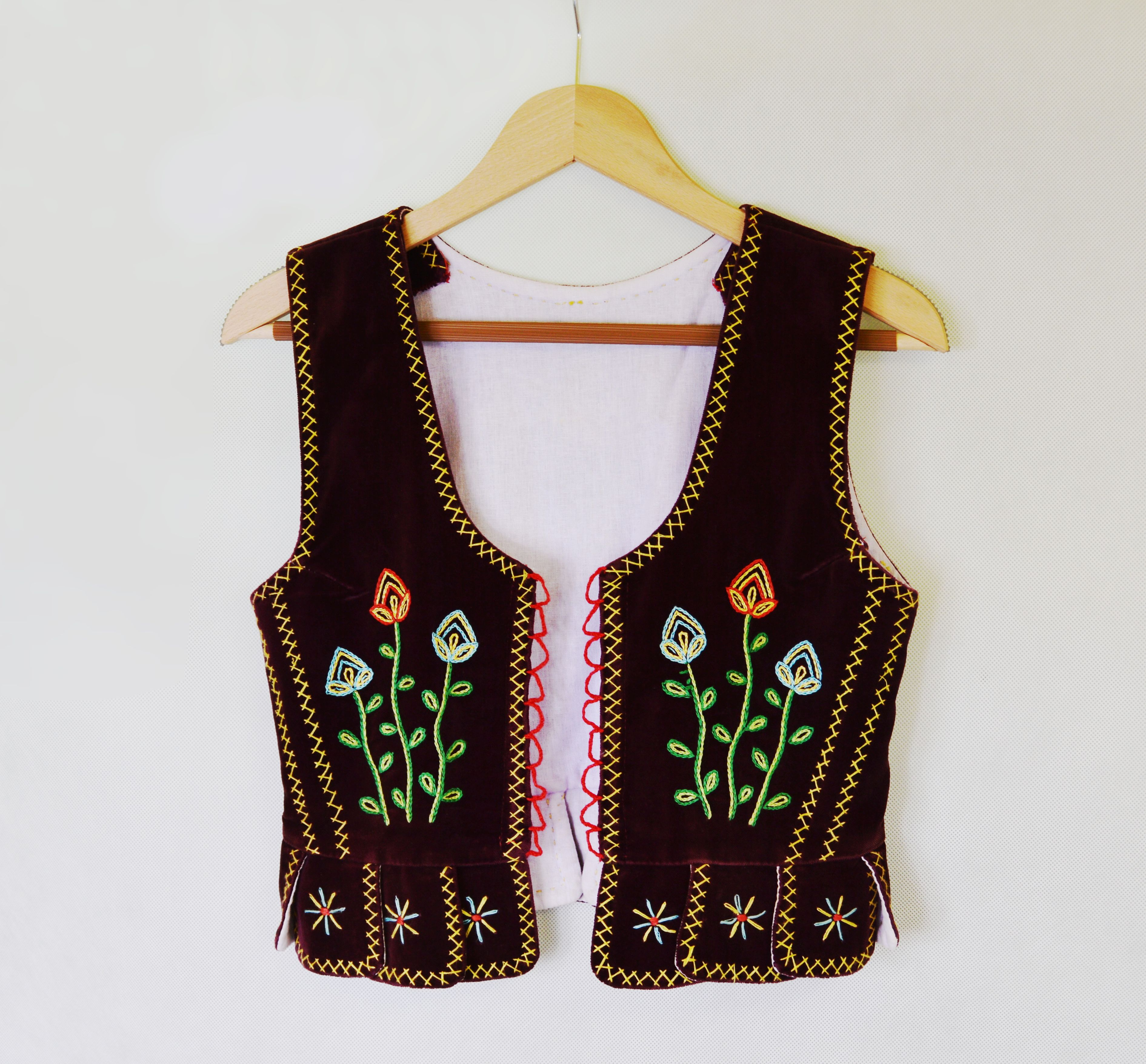 Bustier made by seamstress Jadwiga Jurasz in the traditional Żywiec highlander style, property of the "Grojcowianie" folklore group from Żywiec Beskids, Poland